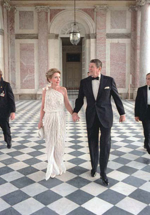 Ronald and Nancy Reagan at Versailles. Nancy Reagan is wearing a Gallanos gown.